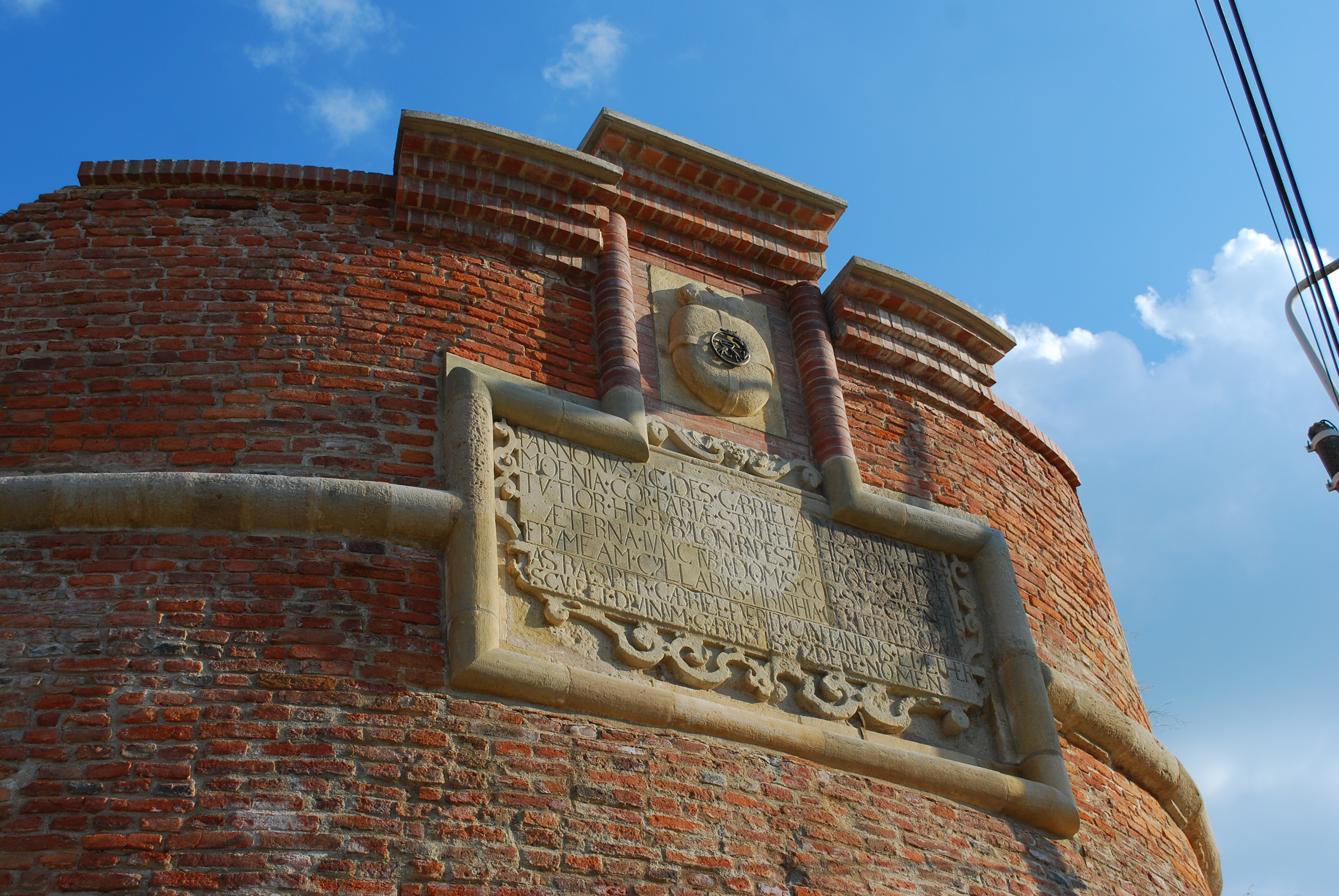 Inscription on the gate to the Oradea city.